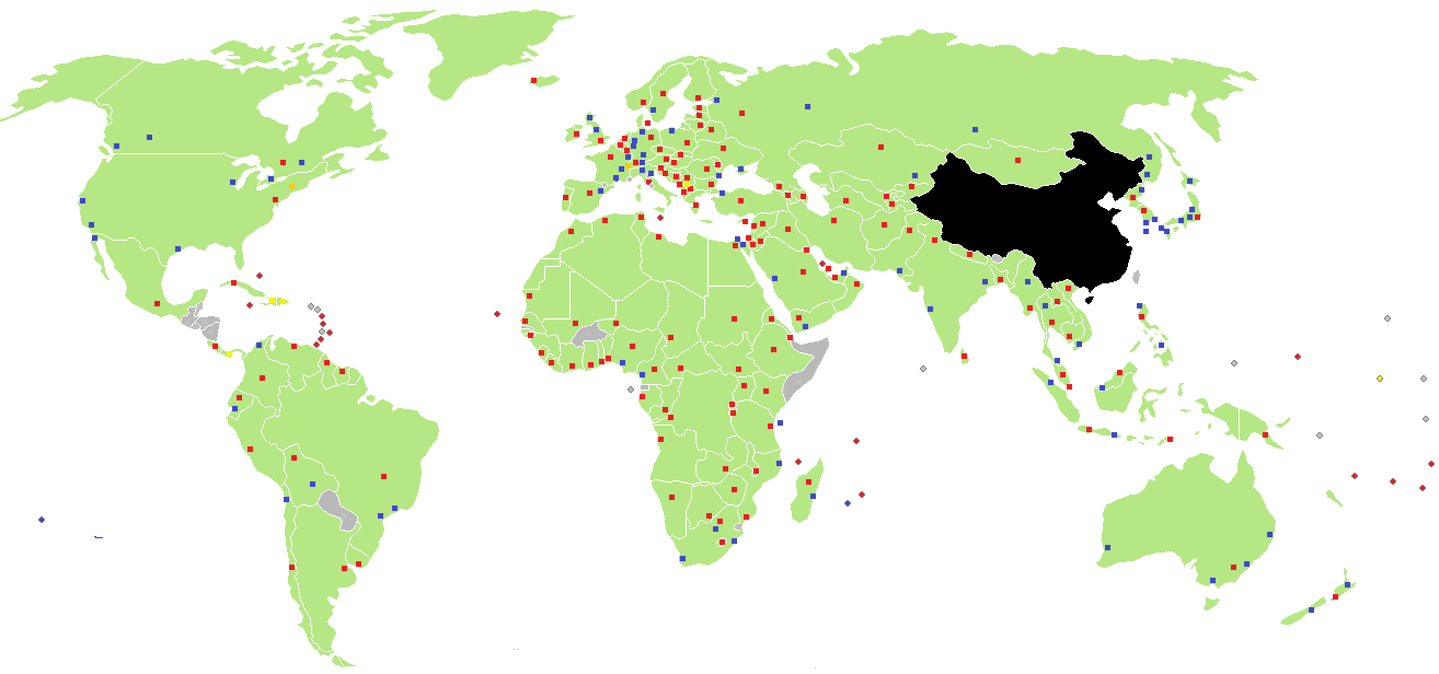 Diplomatic missions of the People's Republic of China